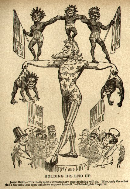 Political cartoon showing aftermath of the Spanish American War. Uncle Sam balances his new possessions, which are depicted as savage children. The figures are identified as Puerto Rico, Hawaii, Cuba, Philippines, and "Ladrones" (the Mariana Islands). Figures representing other nations look on. John Bull says via the caption "It's really most extraordinary what training will do. Why, only the other day I thought that man unable to support himself."